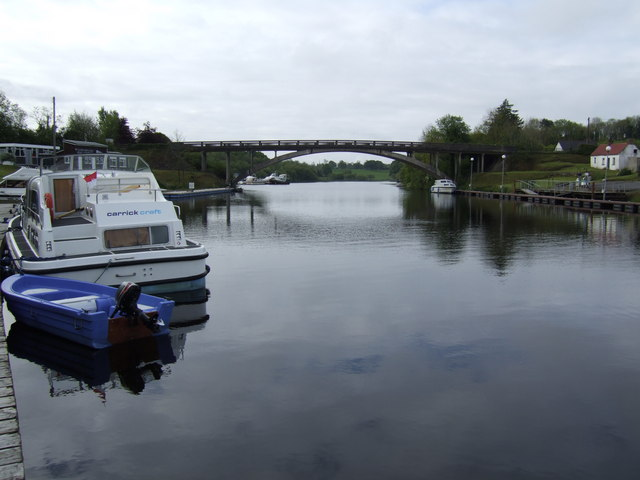 Carry Bridge Crossing one of the channels of the River Erne between the Lower and Upper Loughs. The Inishmore side is to the right.